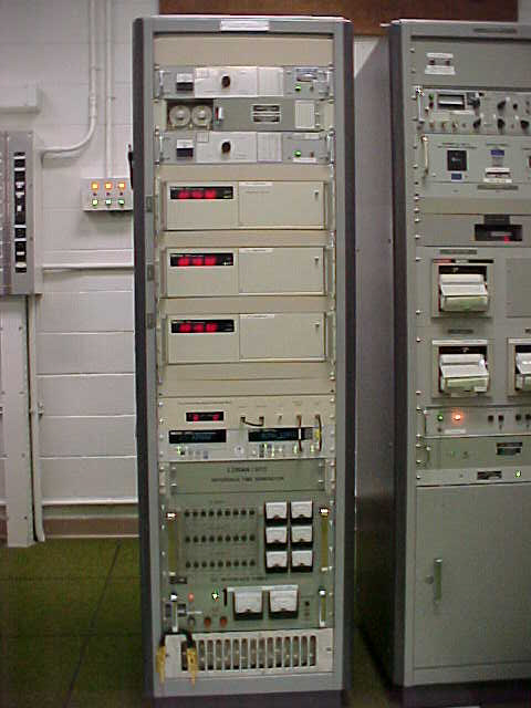 LORAN Station Malone, Florida: Cesium clocks